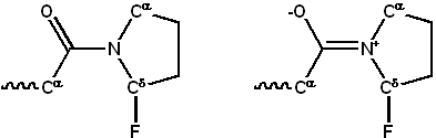 Electronegative substituent near the amide nitrogen favors the single-bonded resonance form. Made with ChemDraw.